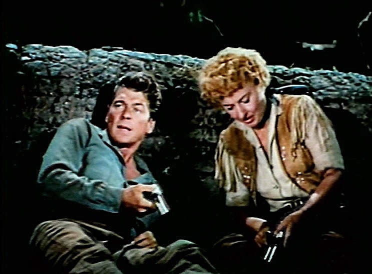 This image is a screenshot from a public domain trailer for the 1954 film, Cattle Queen of Montana. Trailers for movies released before 1964 are in the Public Domain because they were never separately copyrighted.